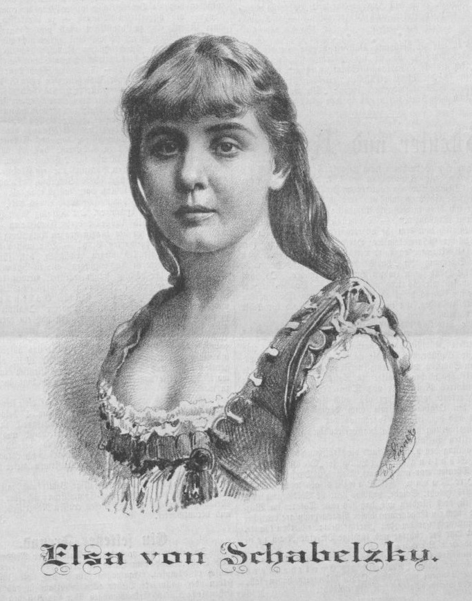 Portrait of Elsa von Schabelsky (1855-1917), also known as Elisaweta Schabelskaya-Bork (Елизавета Александровна Шабельская-Борк), a Russian actress and writer who also performed in Germany.